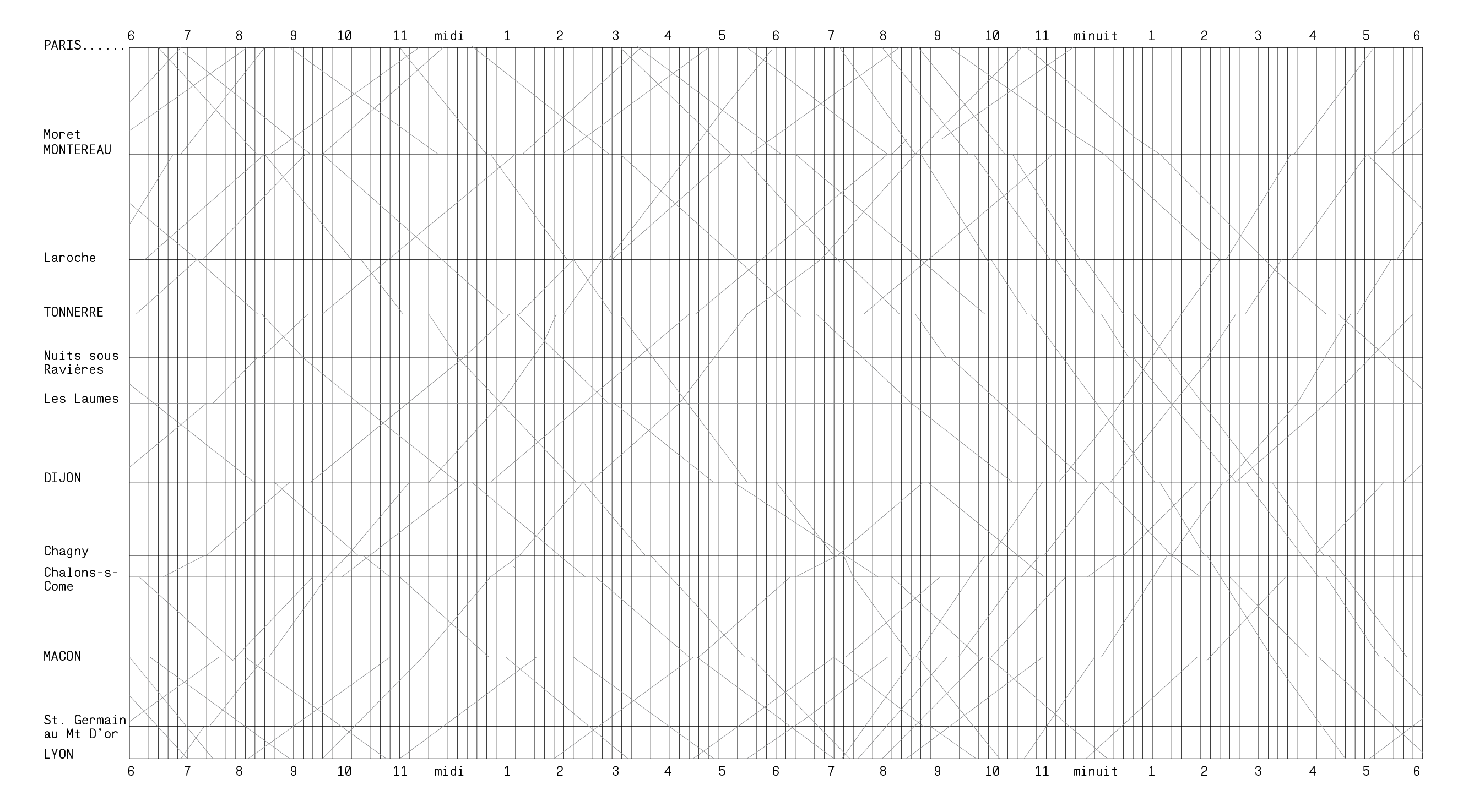 Train charts from Paris to Lyon